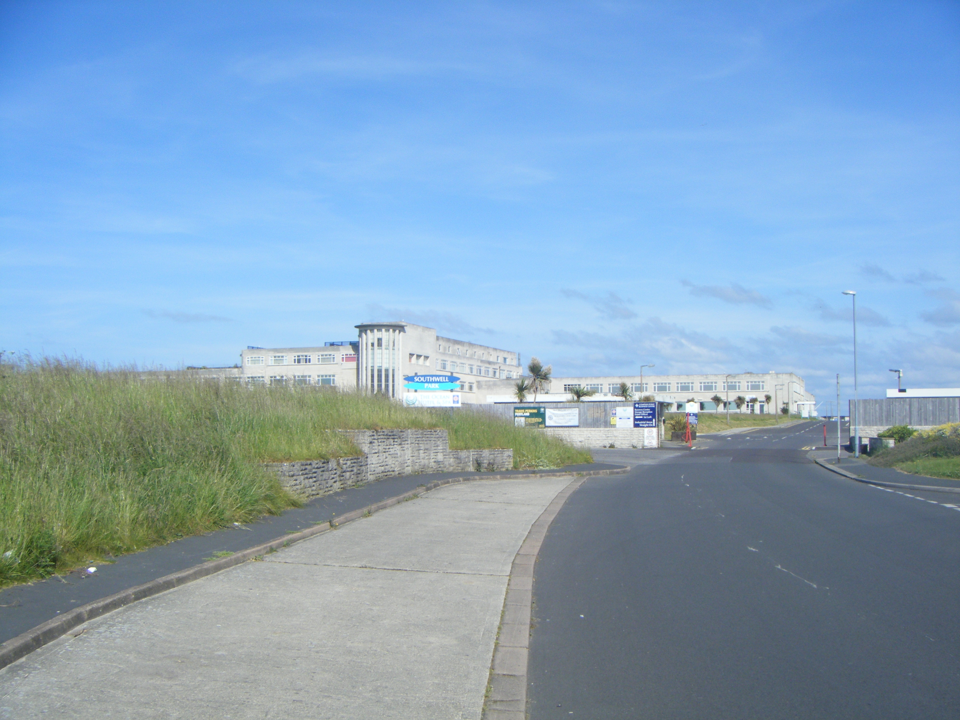 Southwell Business Park (ex-AUWE Portland)